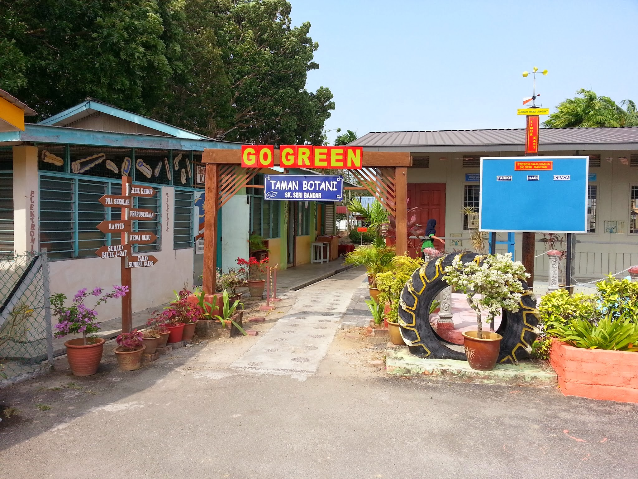 LALUAN DI SKSB